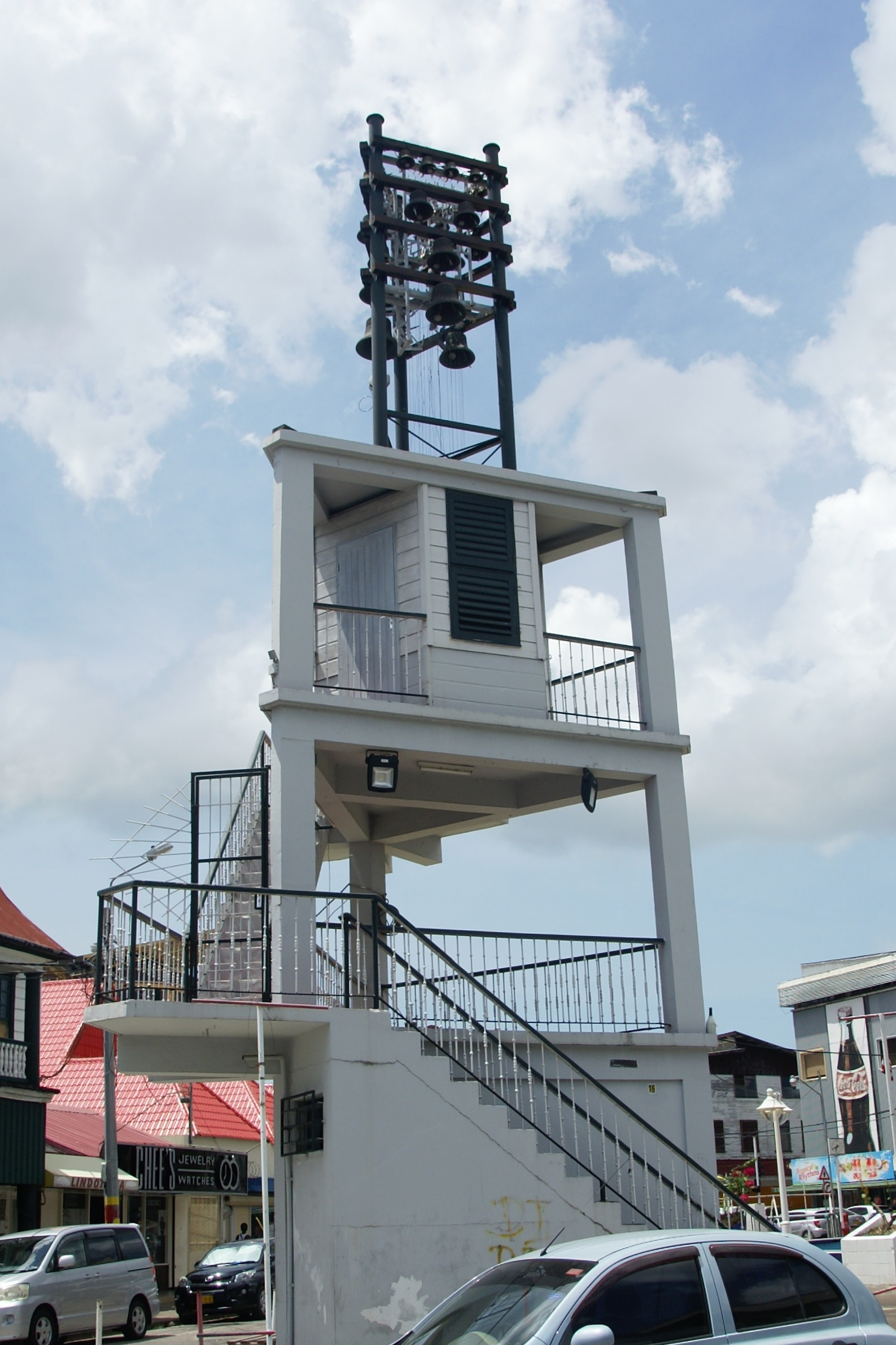 Carillon, Vaillantsplein, Paramaribo, Surinam.